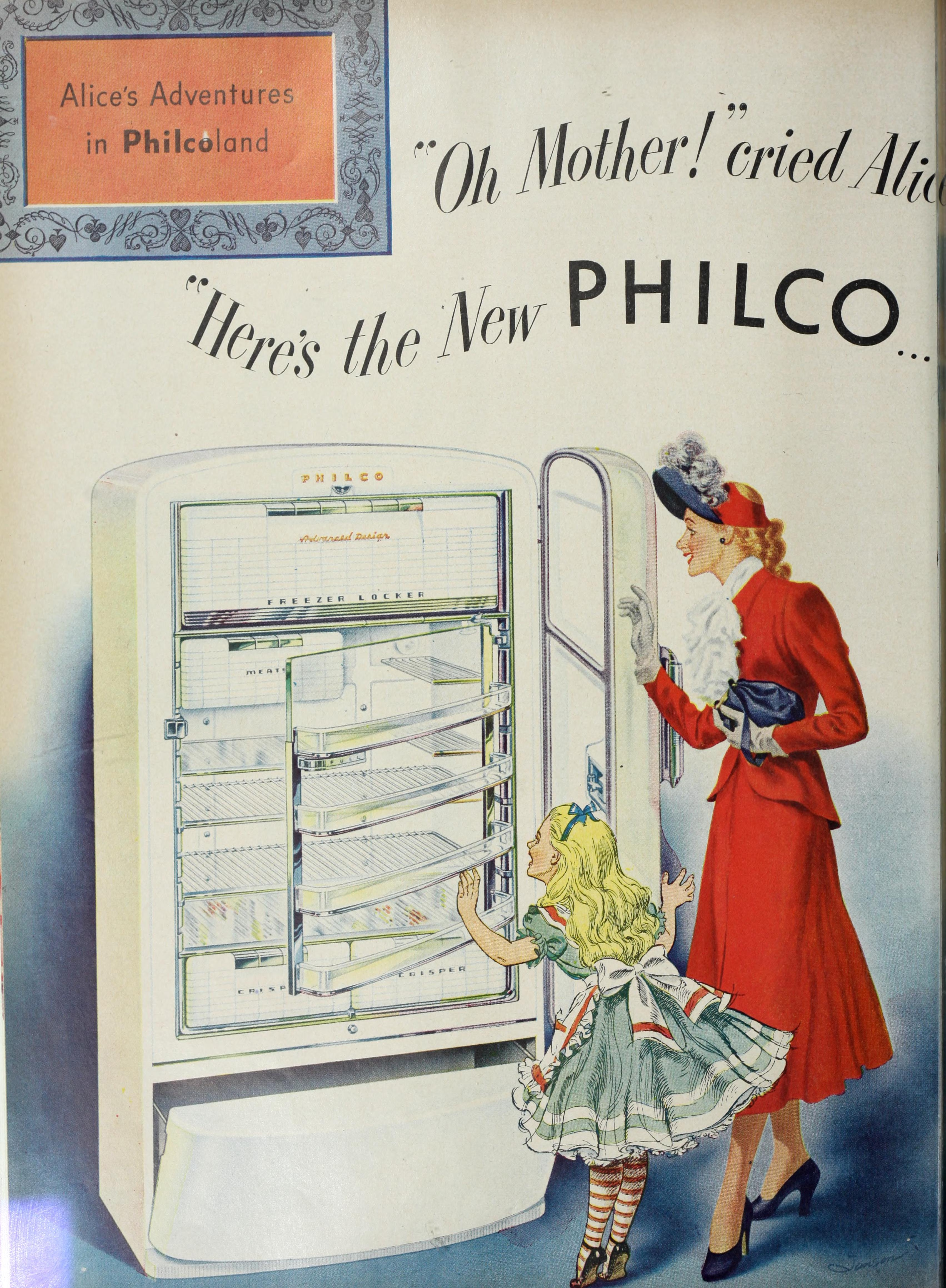 Title: The Ladies' home journal Year: 1889 (1880s) Authors: Wyeth, N. C. (Newell Convers), 1882-1945 Subjects: Women's periodicals Janice Bluestein Longone Culinary Archive Publisher: Philadelphia : (s.n.) Text Appearing Before Image: ' Text Appearing After Image: .■•-■.•■•